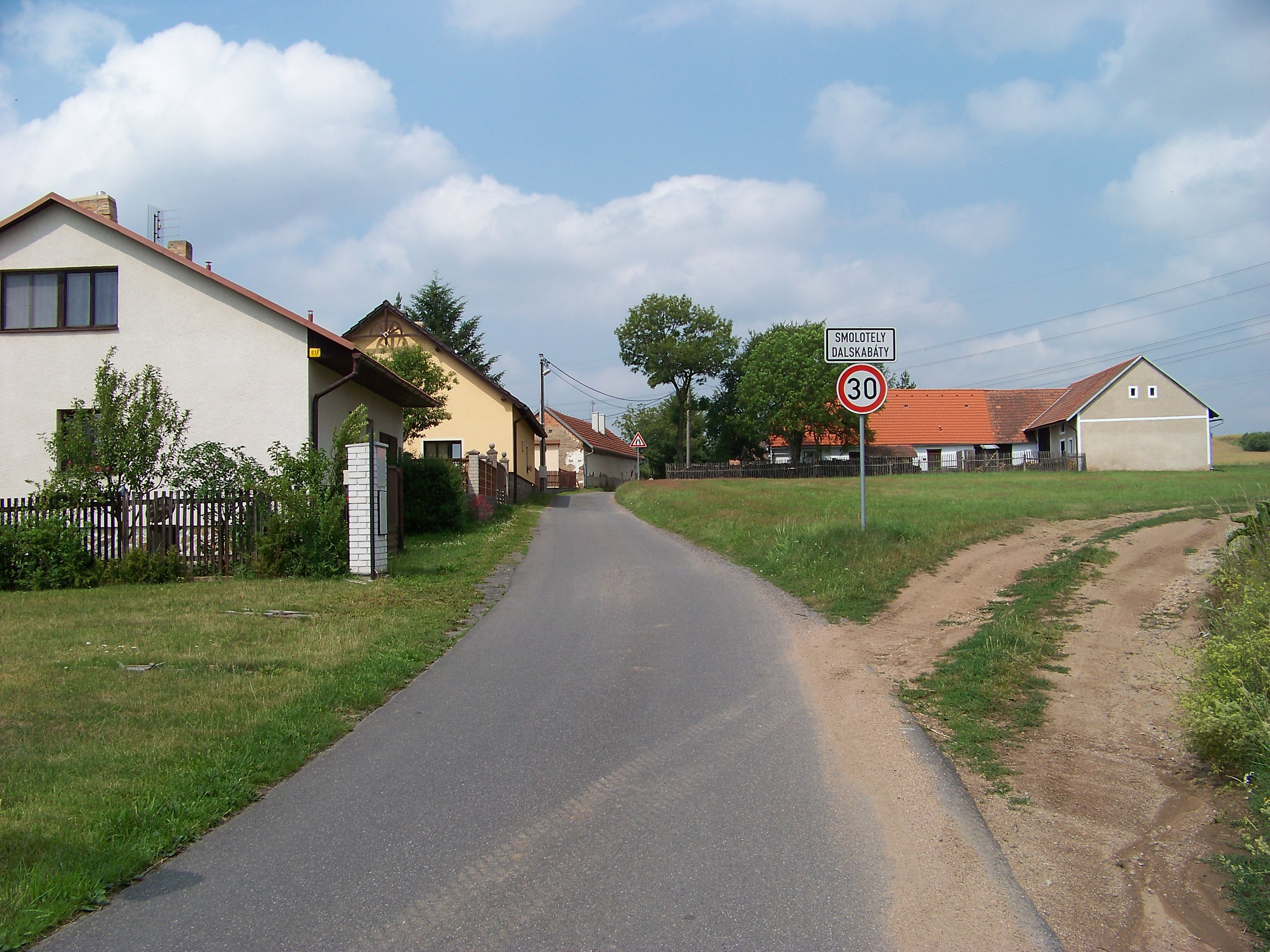 Smolotely-Dalskabáty, Příbram District, Central Bohemian Region, the Czech Republic.